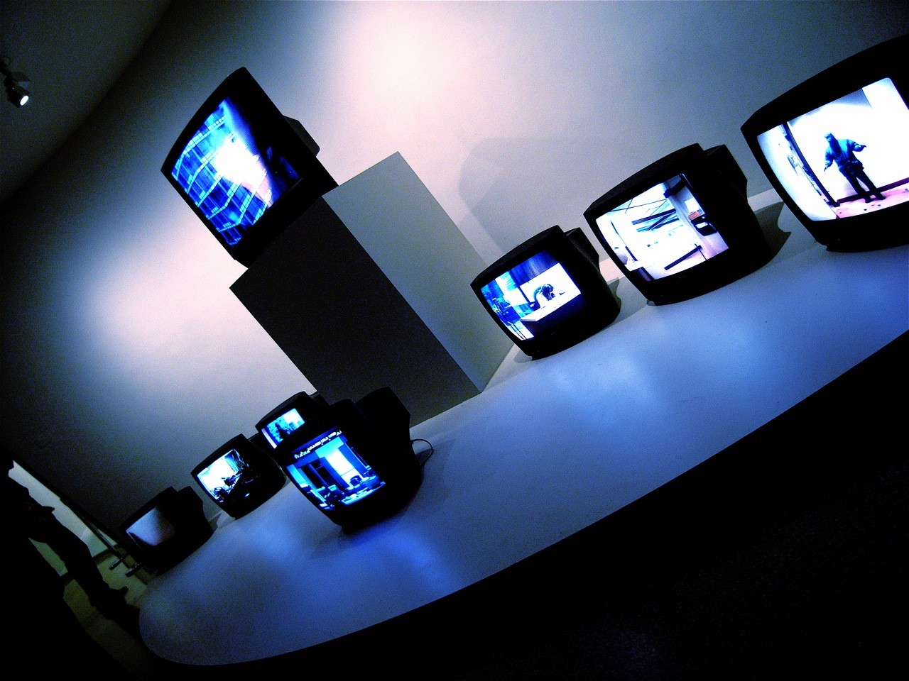 Several televisions